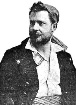 Manuel Morales i Pareja,in Barcelona cómica magazine of 19.1.1895